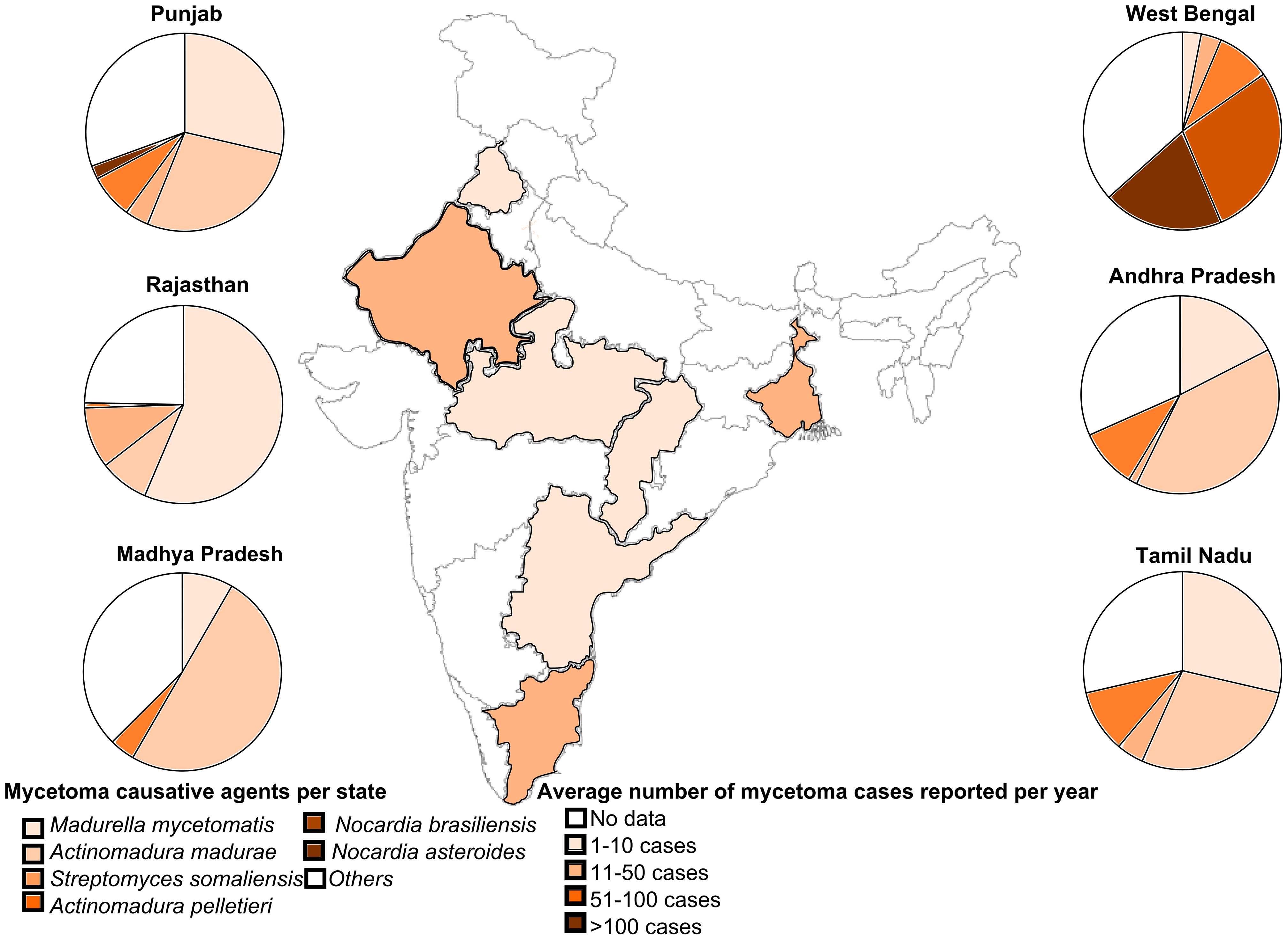 location, cause, and number of cases of the disease mycetoma in India in 2013 from PLOS Neglected Tropical Diseases